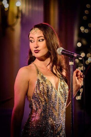 Robyn Adele Anderson